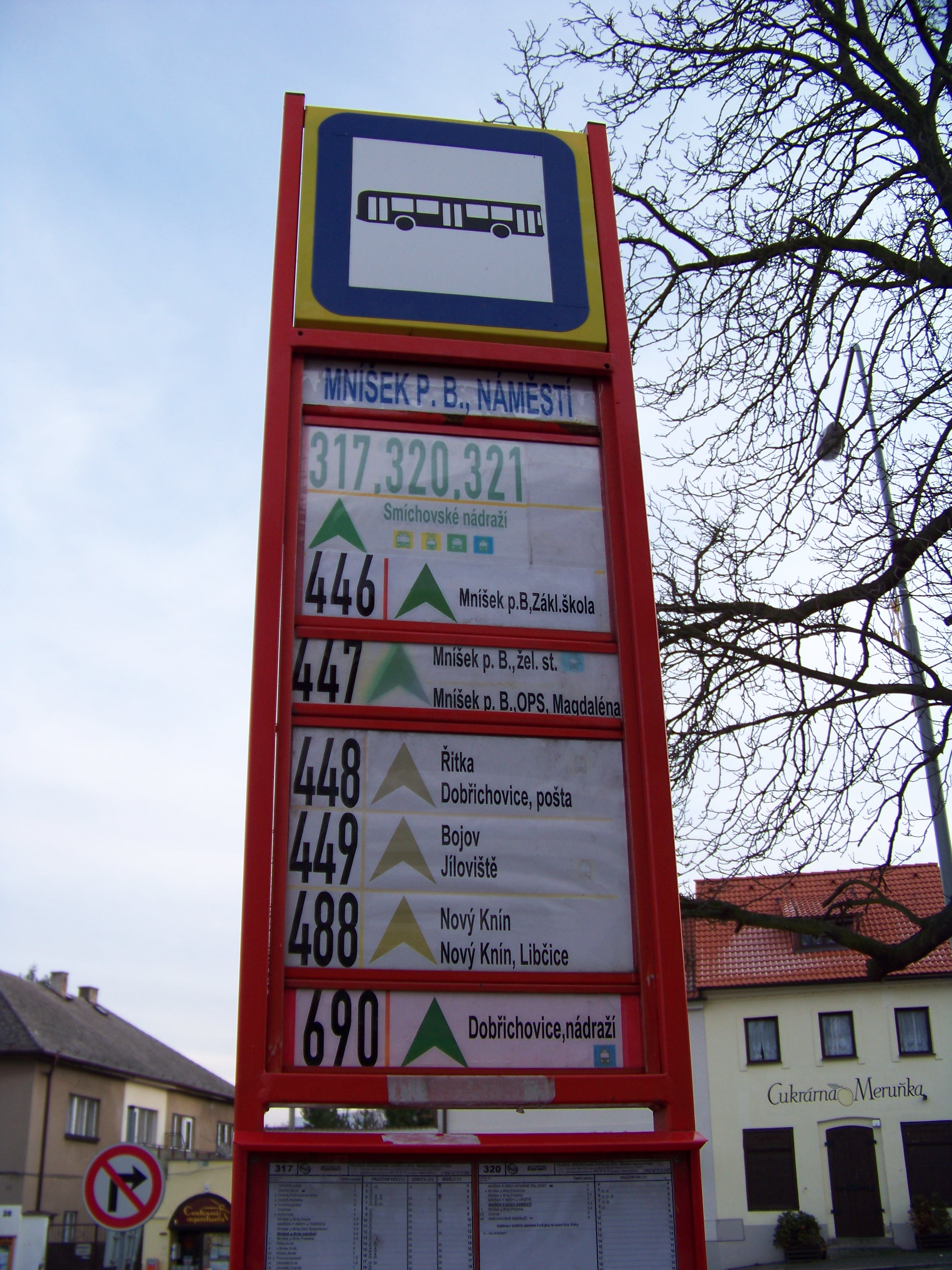 Mníšek pod Brdy, Prague-West District, Central Bohemian Region, the Czech Republic. F. X. Svoboda's Square. The bus stop. - Google Maps - Google Earth